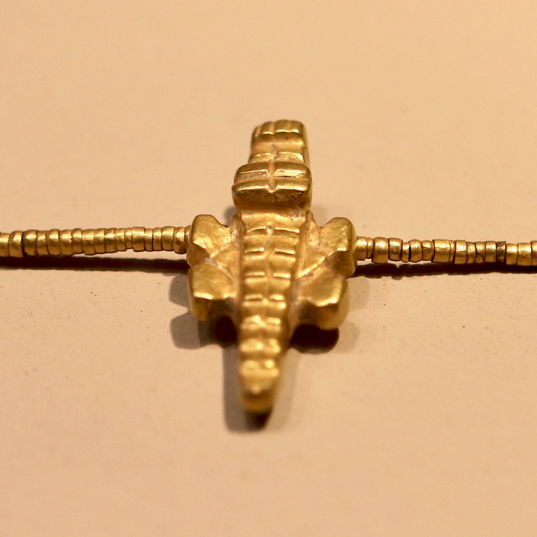 Necklace featuring Alligator Pendant, AD. 200 Calima/Tolima Culture, Colombia Gold The Dom Joseph Judge, M.D. Collection donated by the Judge Family 2004.26.5